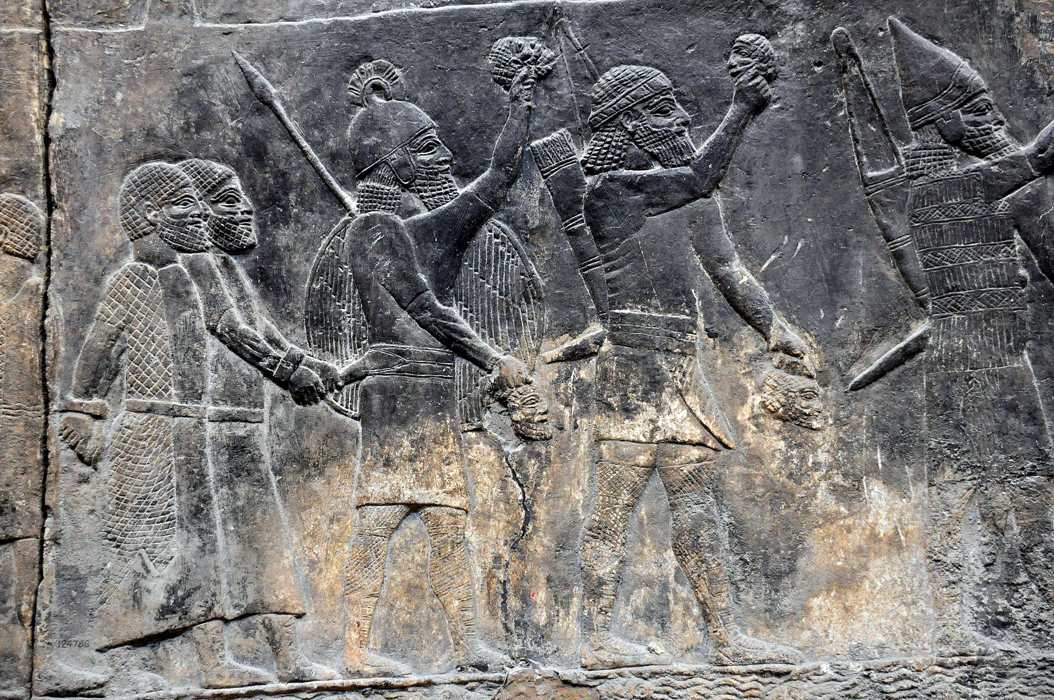 Assyrian soldiers carry beheaded heads of their prisoners from the town of "-alammu", reign of Sennacherib, 700-692 BC. From the South-West Palace at Nineveh, in modern-day Nineveh Governorate, Iraq. The British Museum, London.